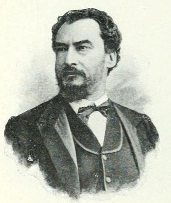 Portrait of the Italian politician Emilio Broglio. In "Nuovi ritratti letterari e artistici" di Edmondo De Amicis (1908)